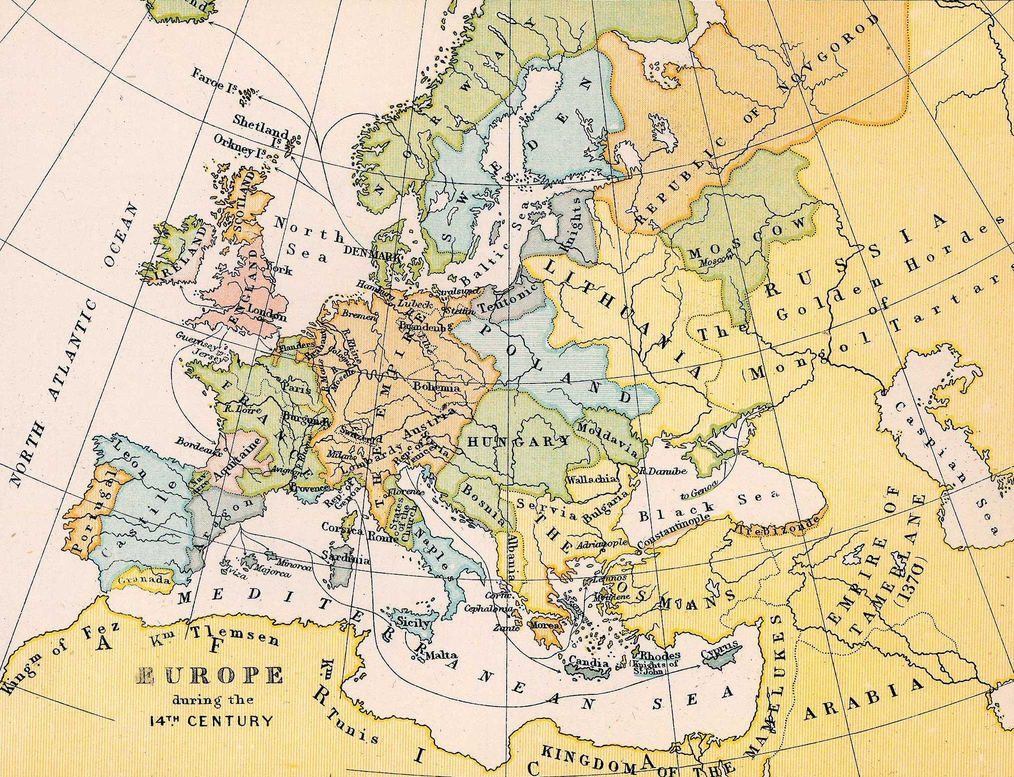 Map of Europe in the 14th Century.